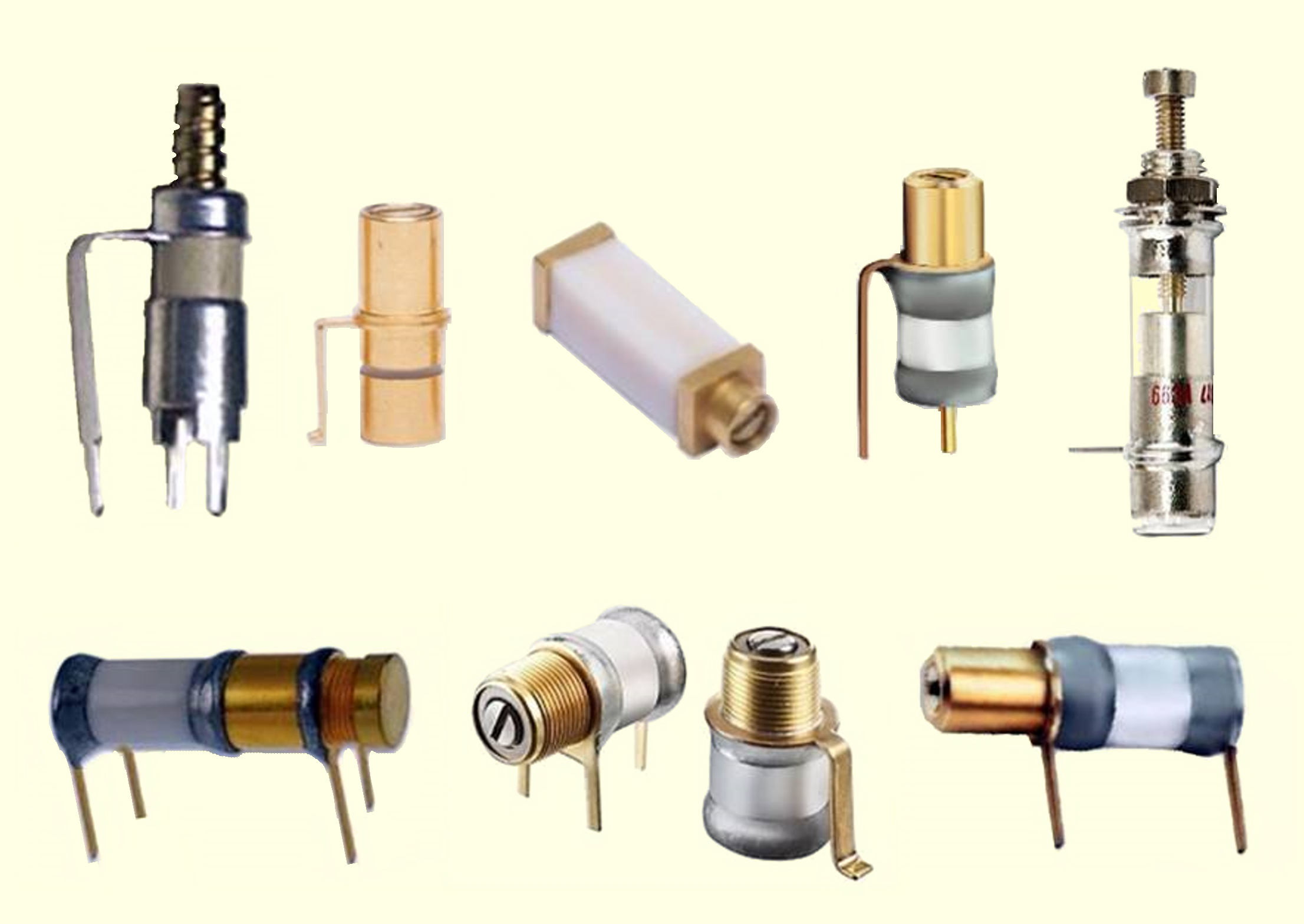 Multiturn trimmer capacitors